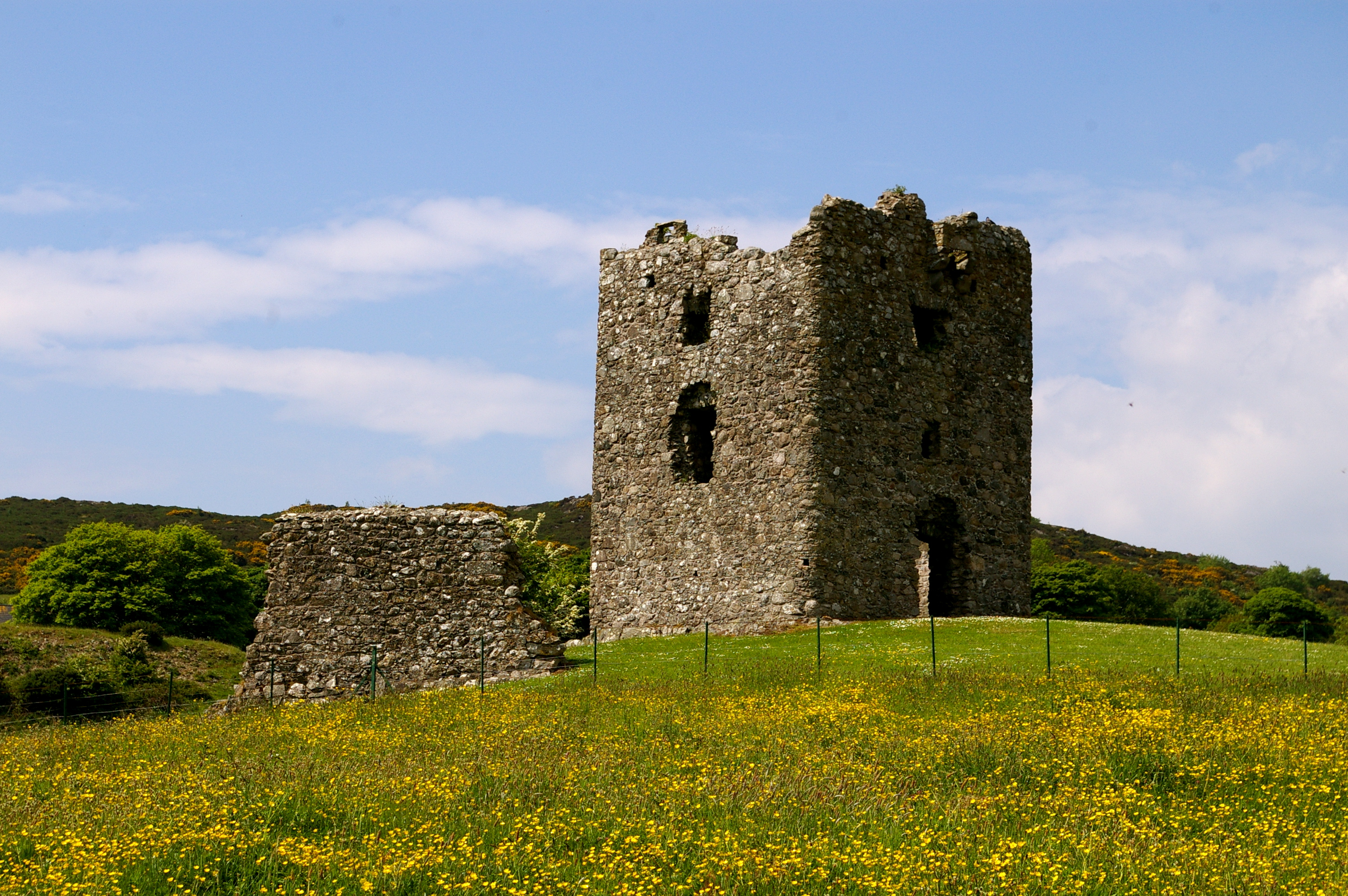 Moyry Castle. Near Faughart, County Lough, Ireland